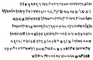 A copy of the text of the Paraiba Stone sent to Ladislau Netto in 1872.